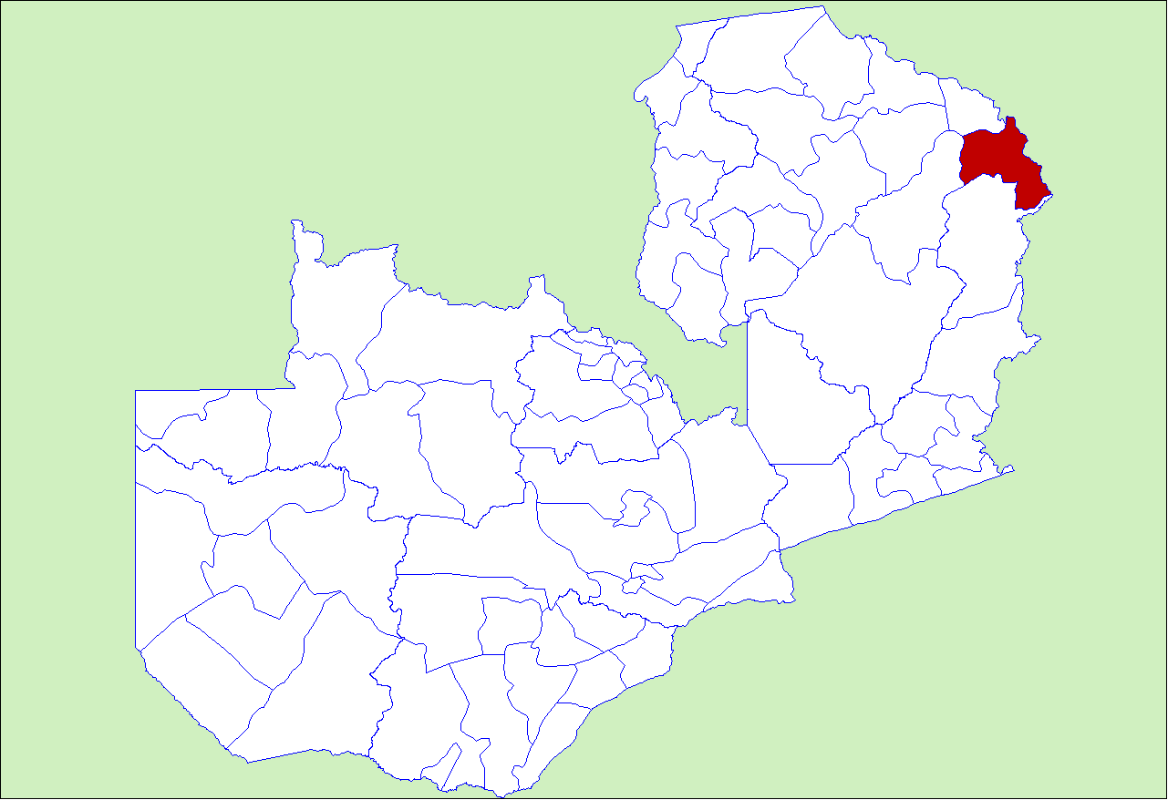 District locator in Zambia